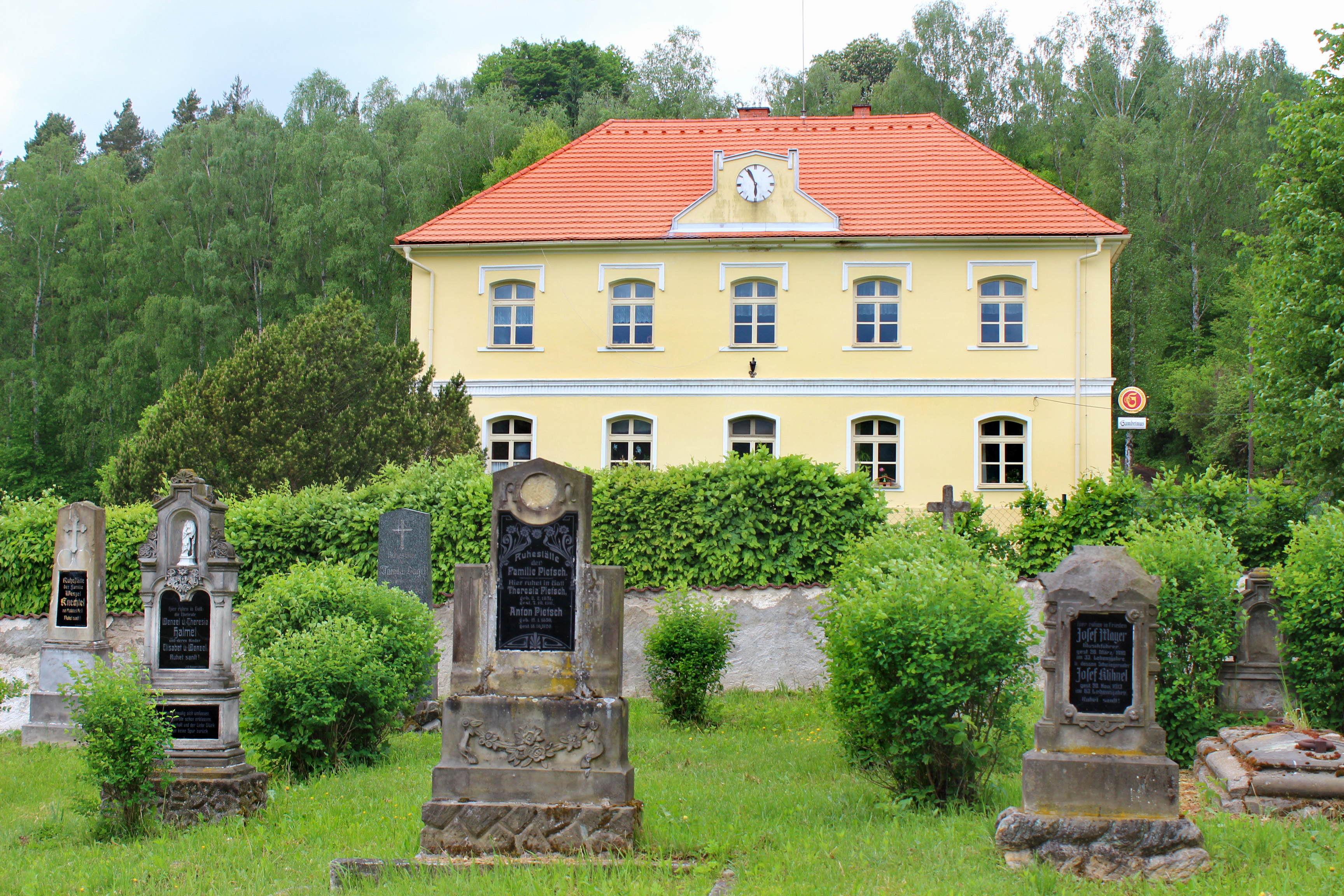 Municipal office in Medonosy, Czech Republic